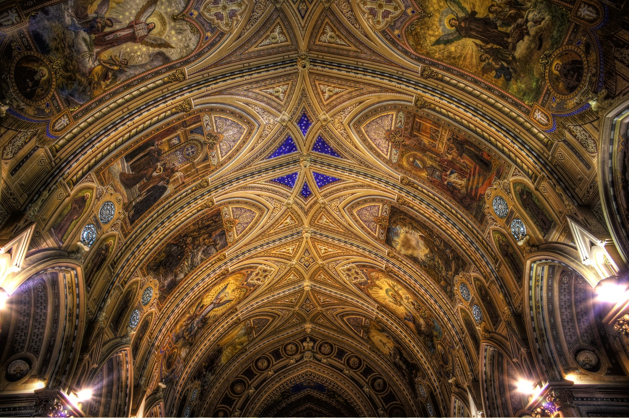 Embare Church - Santos - Brazil